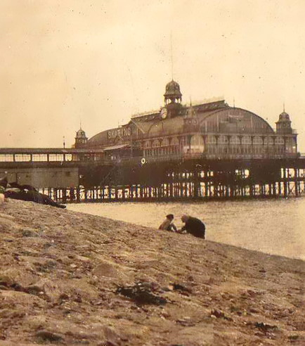 Pier Pavilion, Southend-on-Sea Pier, taken in 1923